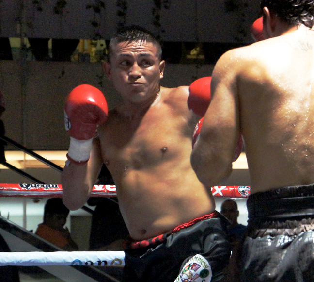 "Rudy" López trying to hit his opponent Orlando “Maromerito” Ramos at the Kukulcán Plaza in Cancún, Quintana Roo, Mexico on October 6, 2011.